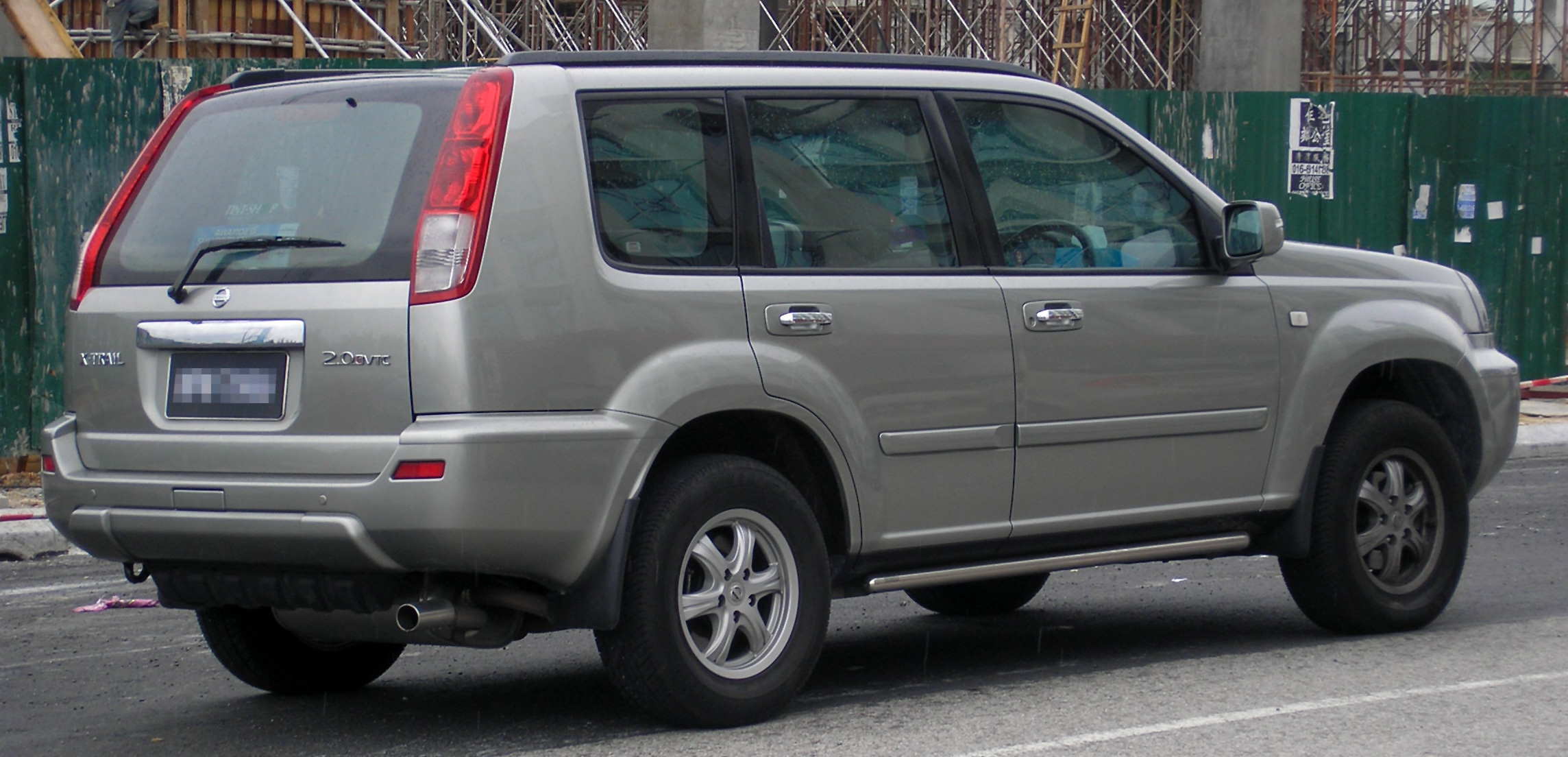 Rear-side shot of an first generation Nissan X-Trail (2.0 CVTC), in Serdang, Selangor, Malaysia.